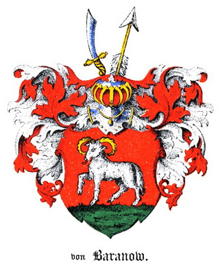 Coat of Arms of Baranow family